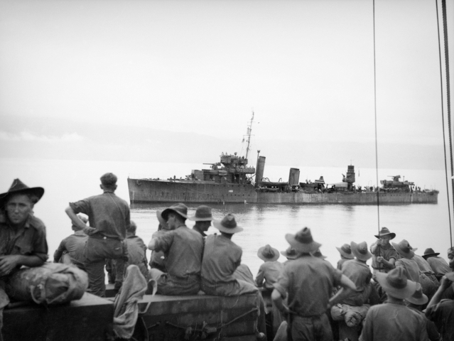 Members of B Company, 14/32nd Infantry Battalion with HMAS Vendetta at Jacquinot Bay, New Britain